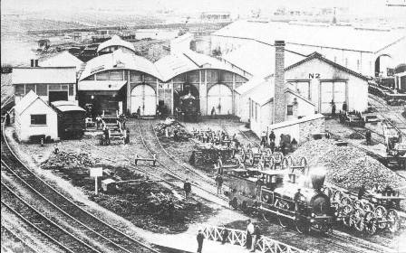 Exterior of the Williamstown Workshops circa 1870